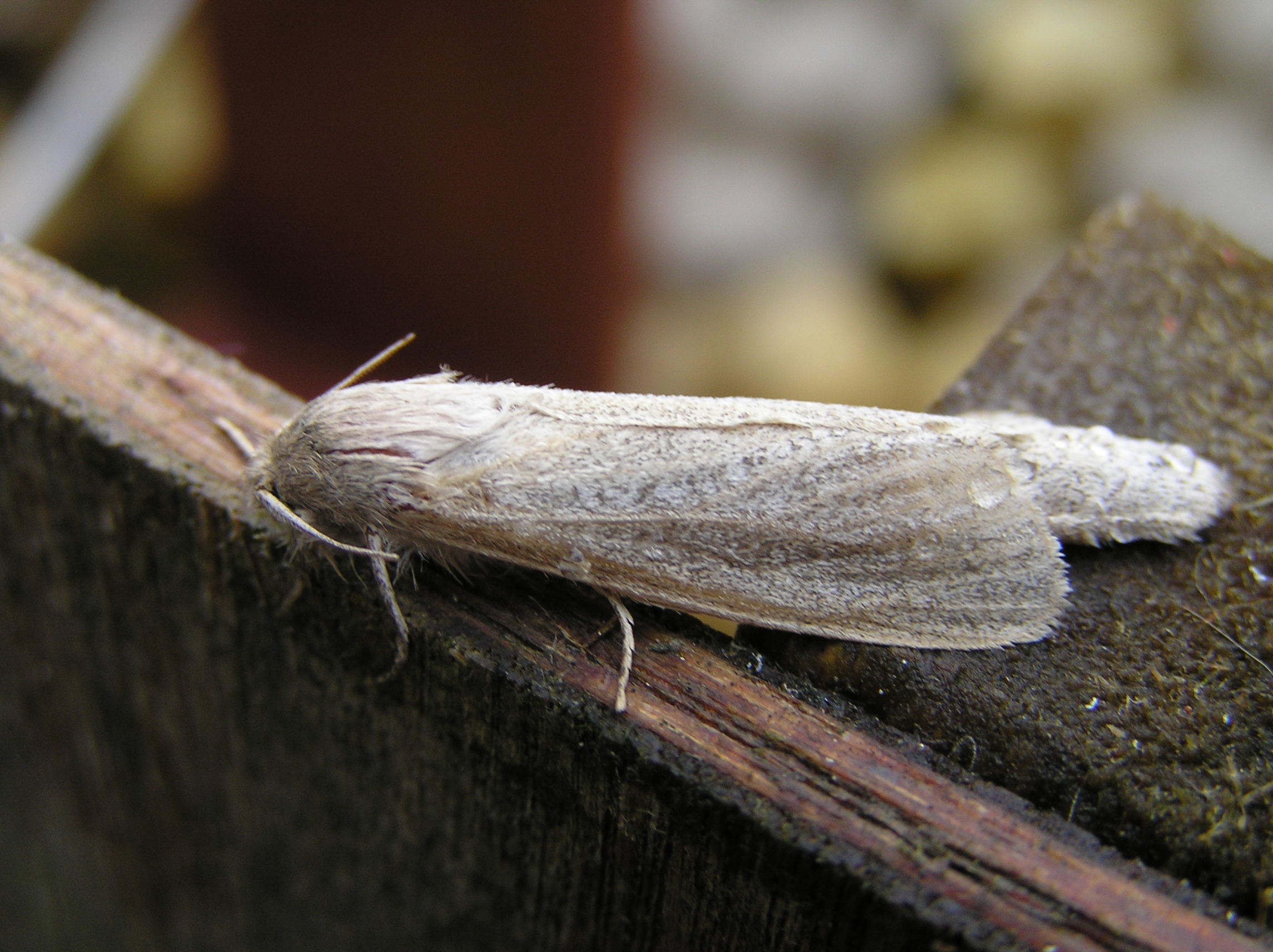 Phragmataecia castaneae (Zwaakse Weel, the Netherlands)